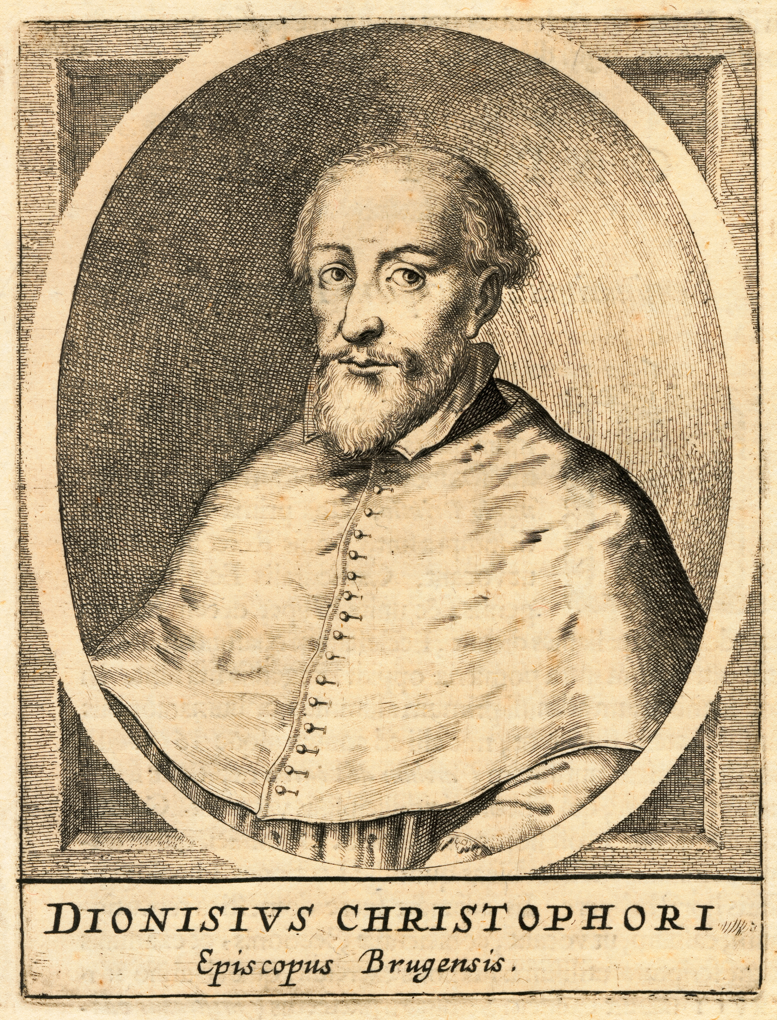 Dyonisius Christophori, 6th bishop of Bruges (Belgium). Etching from: A. Sanderus, Flandria Illustrata, 1641-1644